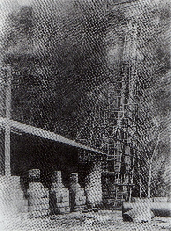 Yumoto-chaya power plant under construction